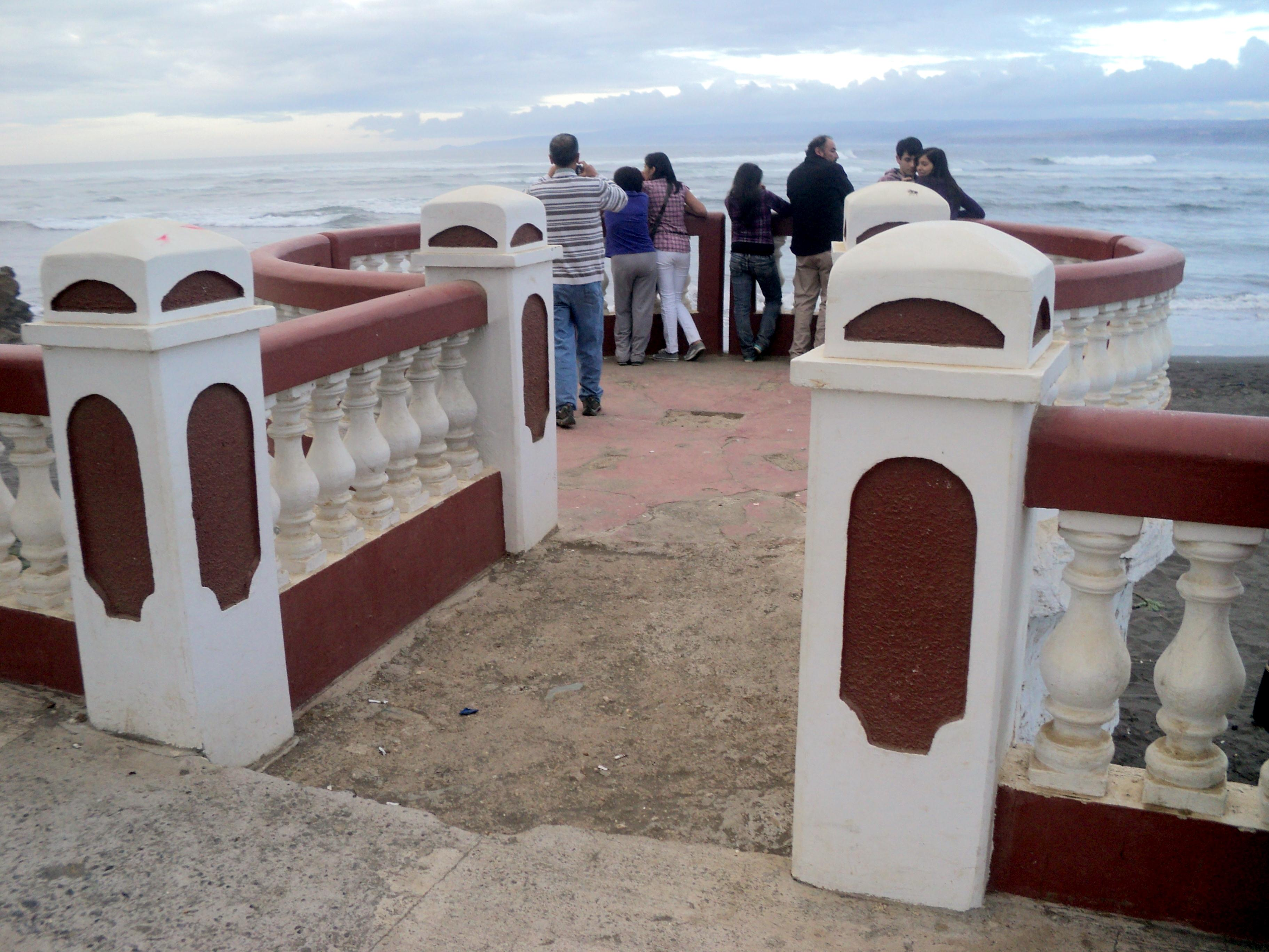 People in the Agustín Ross Balcony, looking forwards to the sea, on March 11, 2011, after a strong earthquake hit Japan, triggering a massive tsunami throughout the Pacific Ocean.